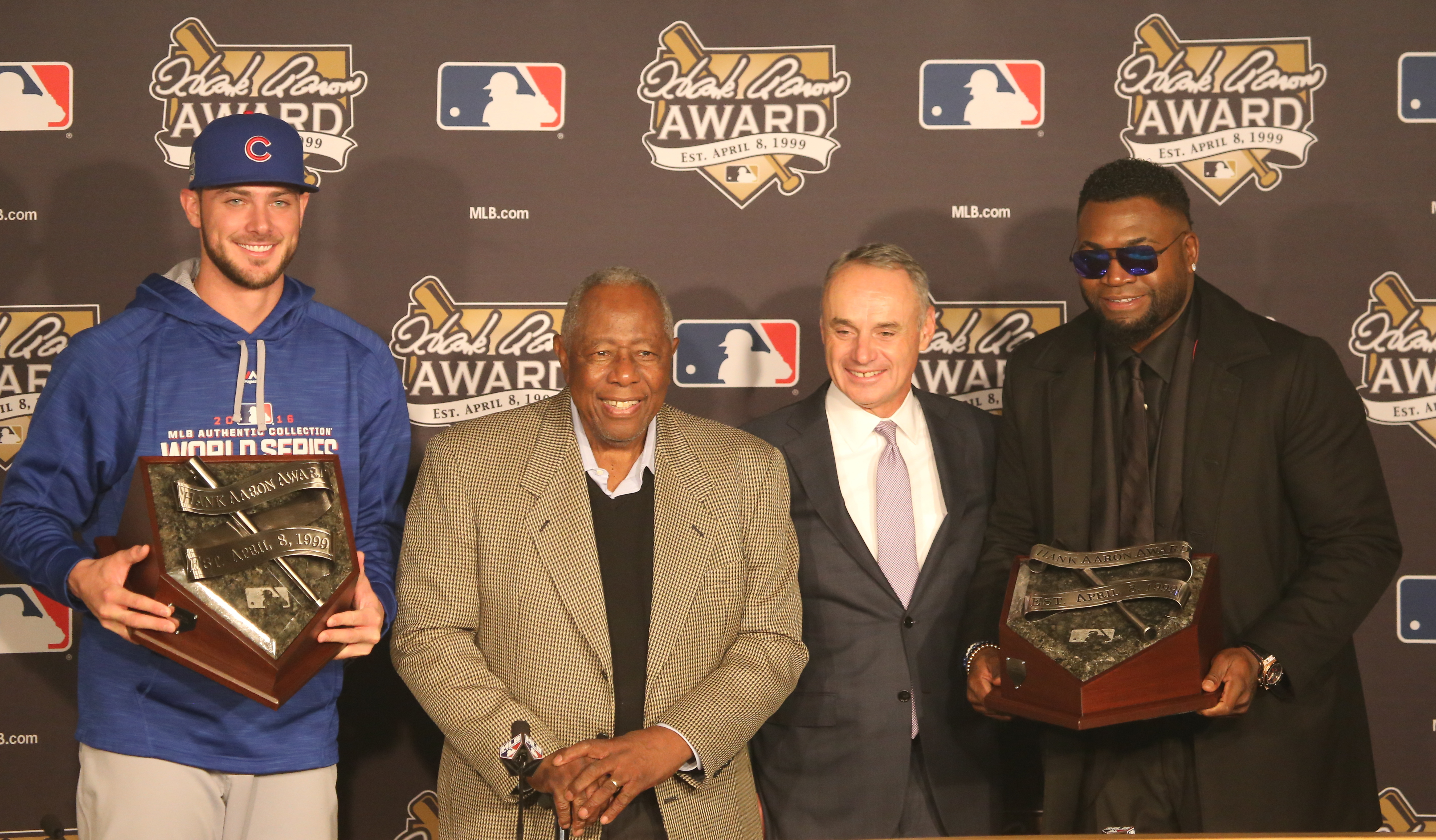 Kris Bryant, Hank Aaron, Rob Manfred and David Ortiz during the Aaron Award ceremony.